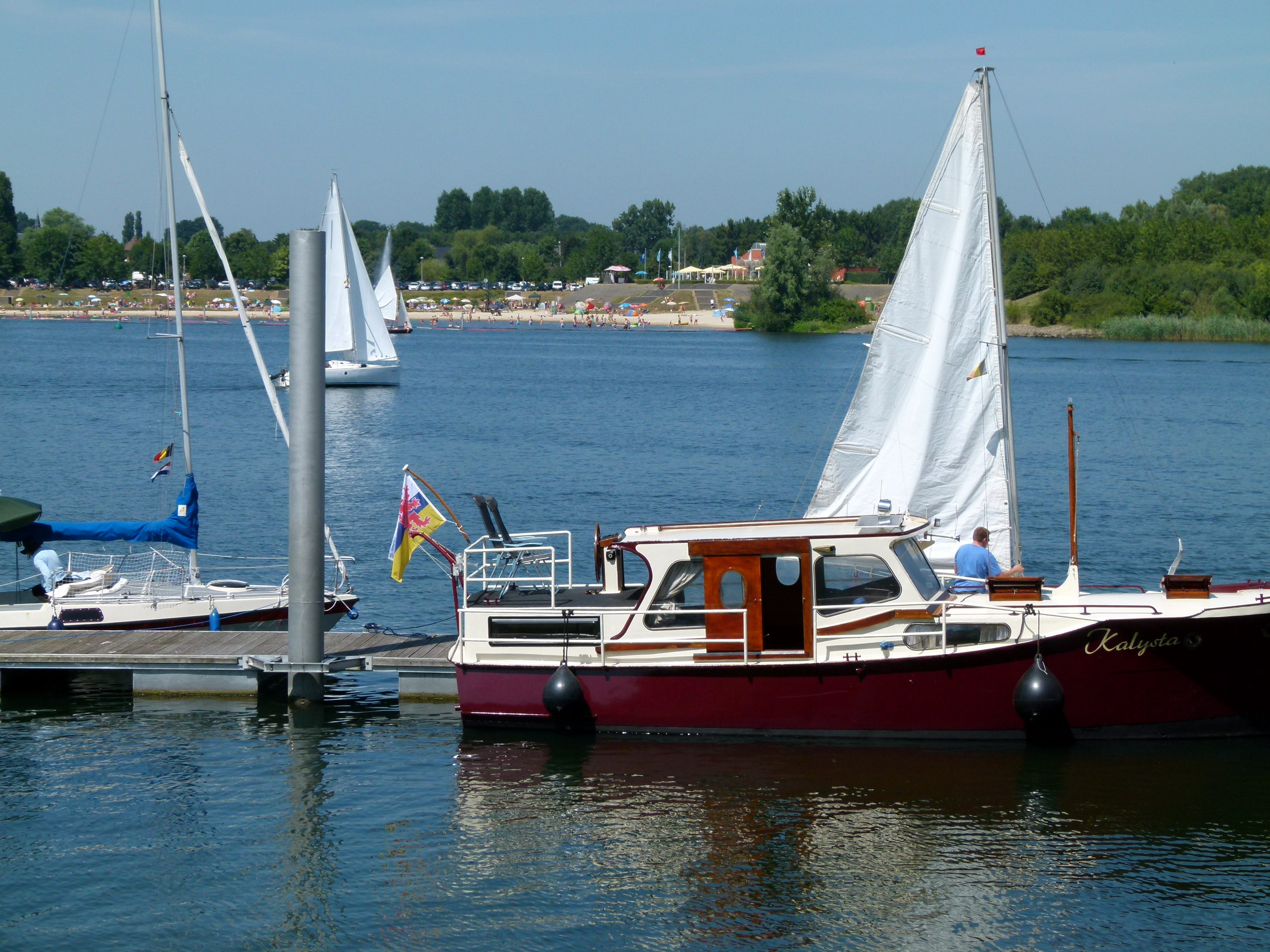 Artificial lake as a result of gravel mining in Meuse river valley in Maaseik-Ophoven, Belgium (near Dutch border).